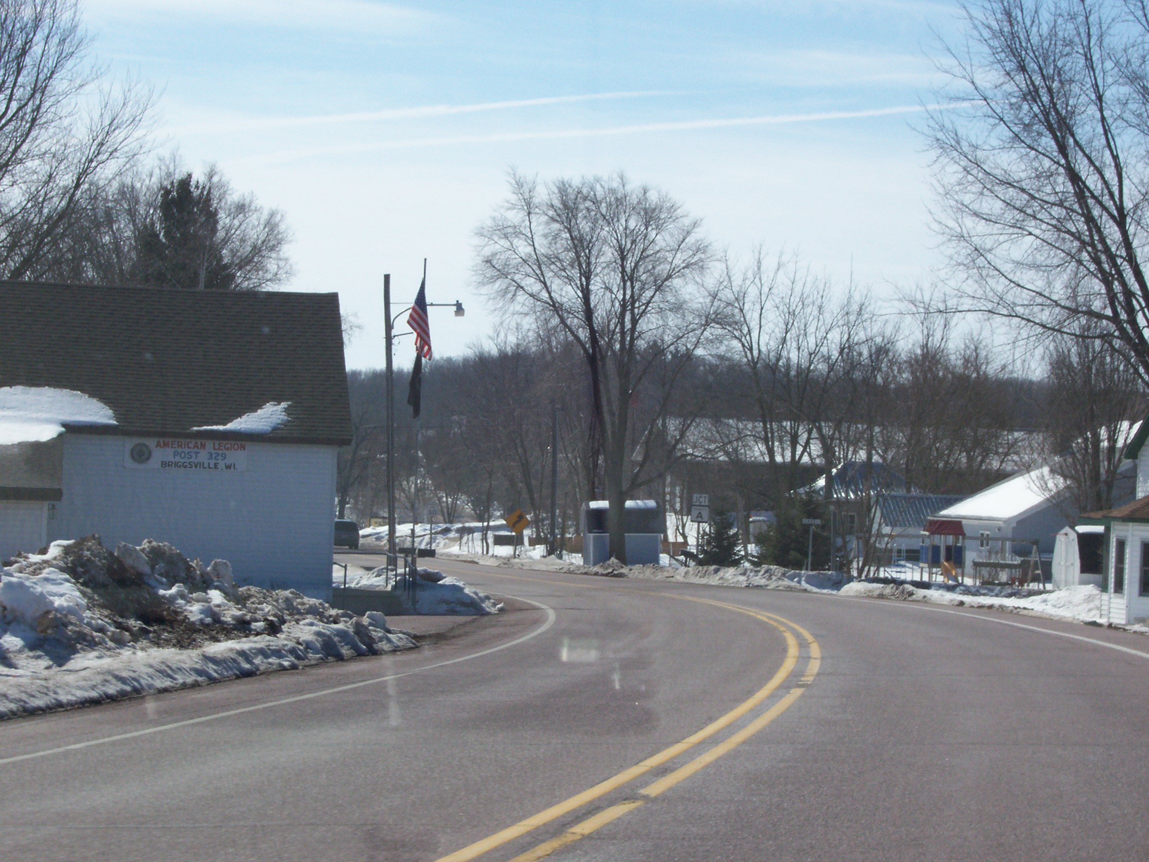 Looking south at Briggsville, Wisconsin, USA while travelling on Wisconsin Highway 23. Taken March 11, 2007 by myself.